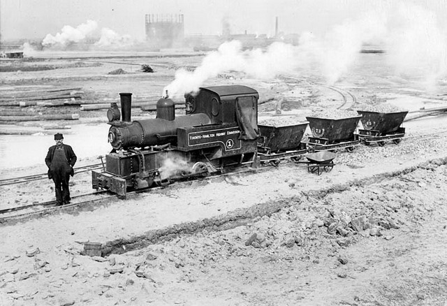 Narrow_guage_locomotive_Toronto_Port_Lands,_1917. Original caption: "Photograph of small narrow-gauge 0-4-0 type tank locomotive coupled to three four-wheeled dump cars in the Port Lands, March 3, 1917, by Arthur Beales. Toronto Port Authority Archives, PC 1/1/1915."